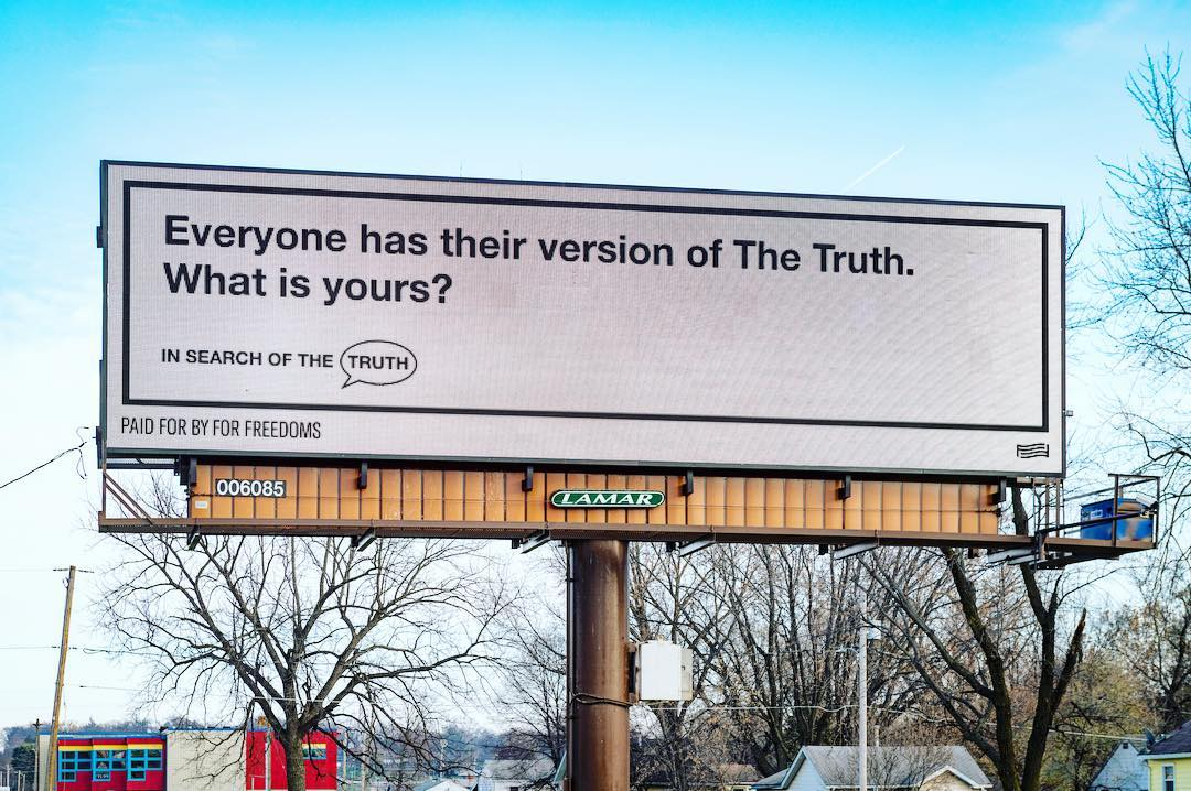 Jim Ricks 'In Search of the Truth' (for Cause Collective) as part of the 2018 For Freedoms billboard project.